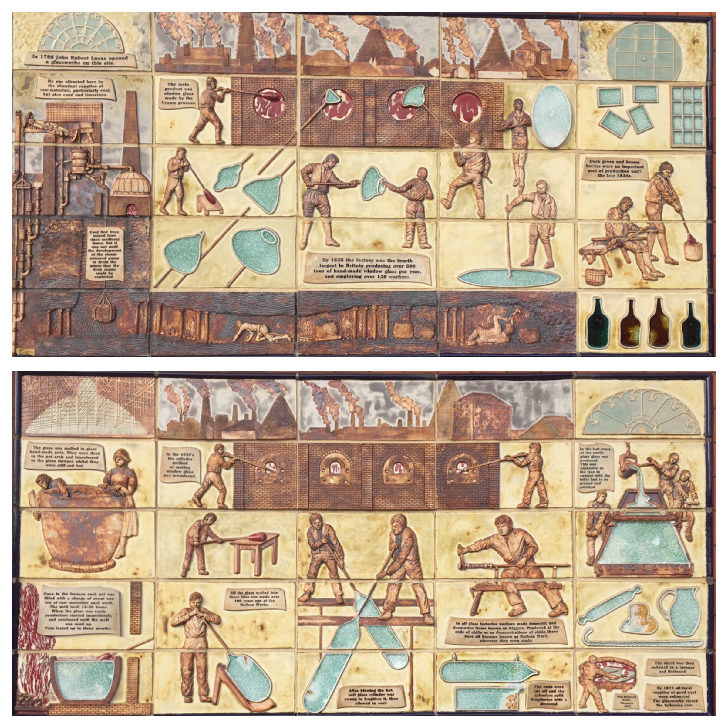 The mosaic mural on the wall of the Tesco supermarket, on the site of the former Nailsea Glassworks in North Somerset.